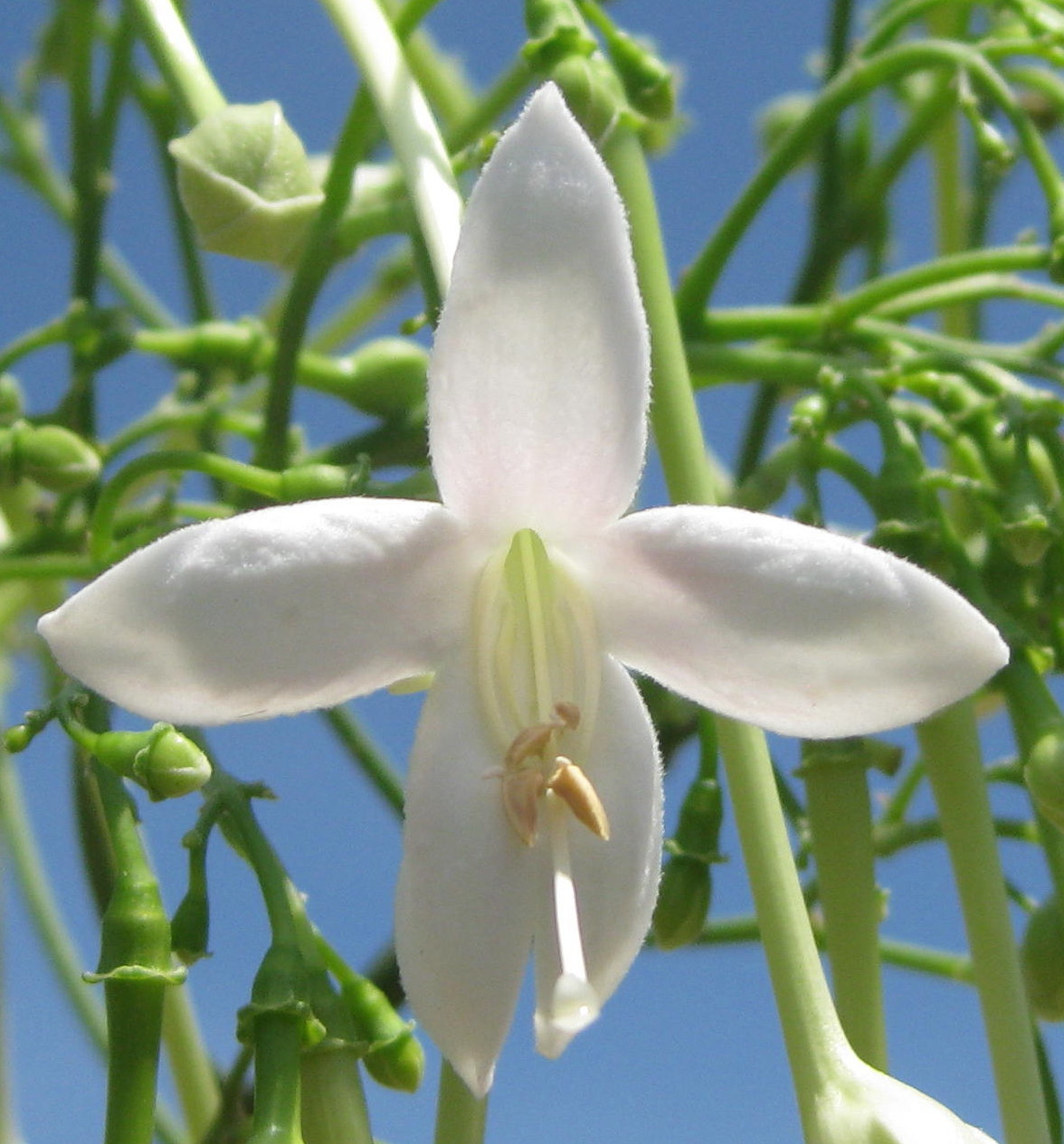 The fragrant flower of the Tree Jasmin (Millingtonia hortensis, family: Bignoniaceae). A native of Burma, and widely grown in many tropical countries.